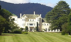 Government House at Yarralumla, Canberra